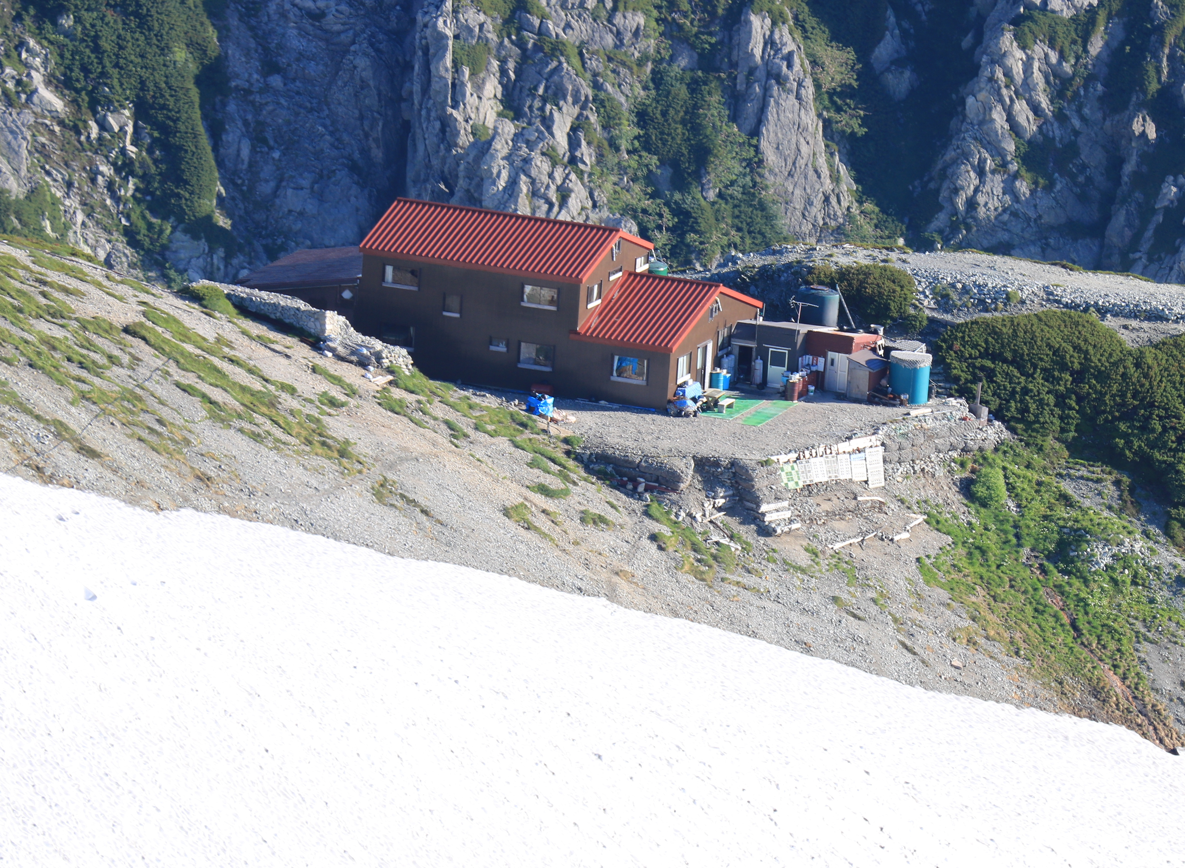 Kuranoske Sanso seen from Fuji-no-oritate (Mount Tate) in Mount Masago, Tateyama Mountains, Tateyama town, Toyama prefecture, Japan.